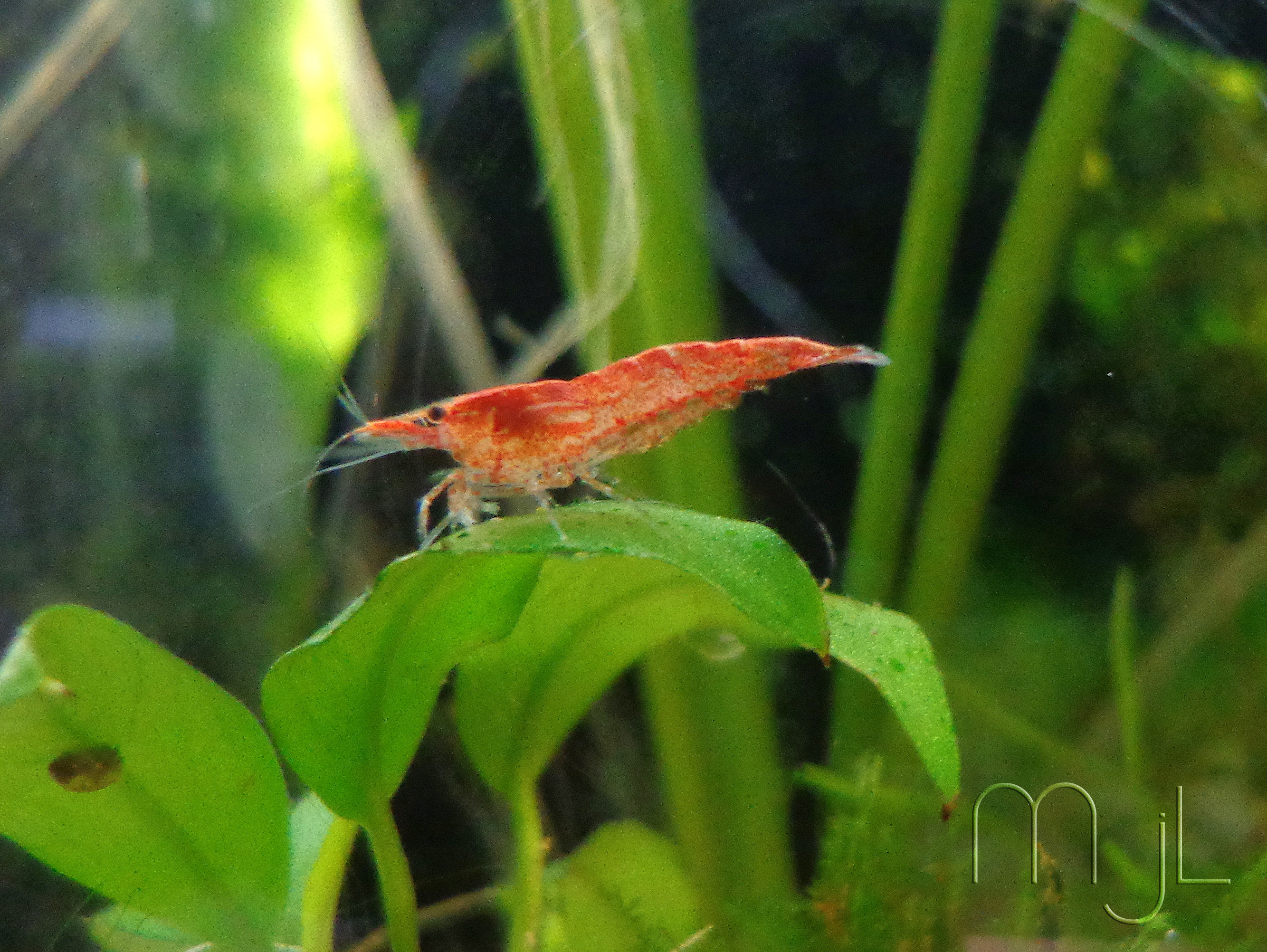 red cherry shrimp